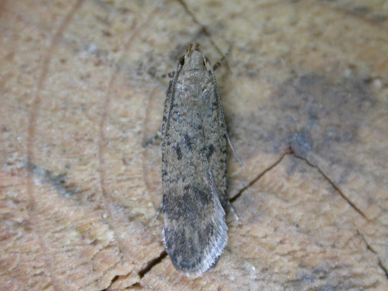 Pexicopia malvella, to MV light, Hellerup, Denmark, 5 June 2003